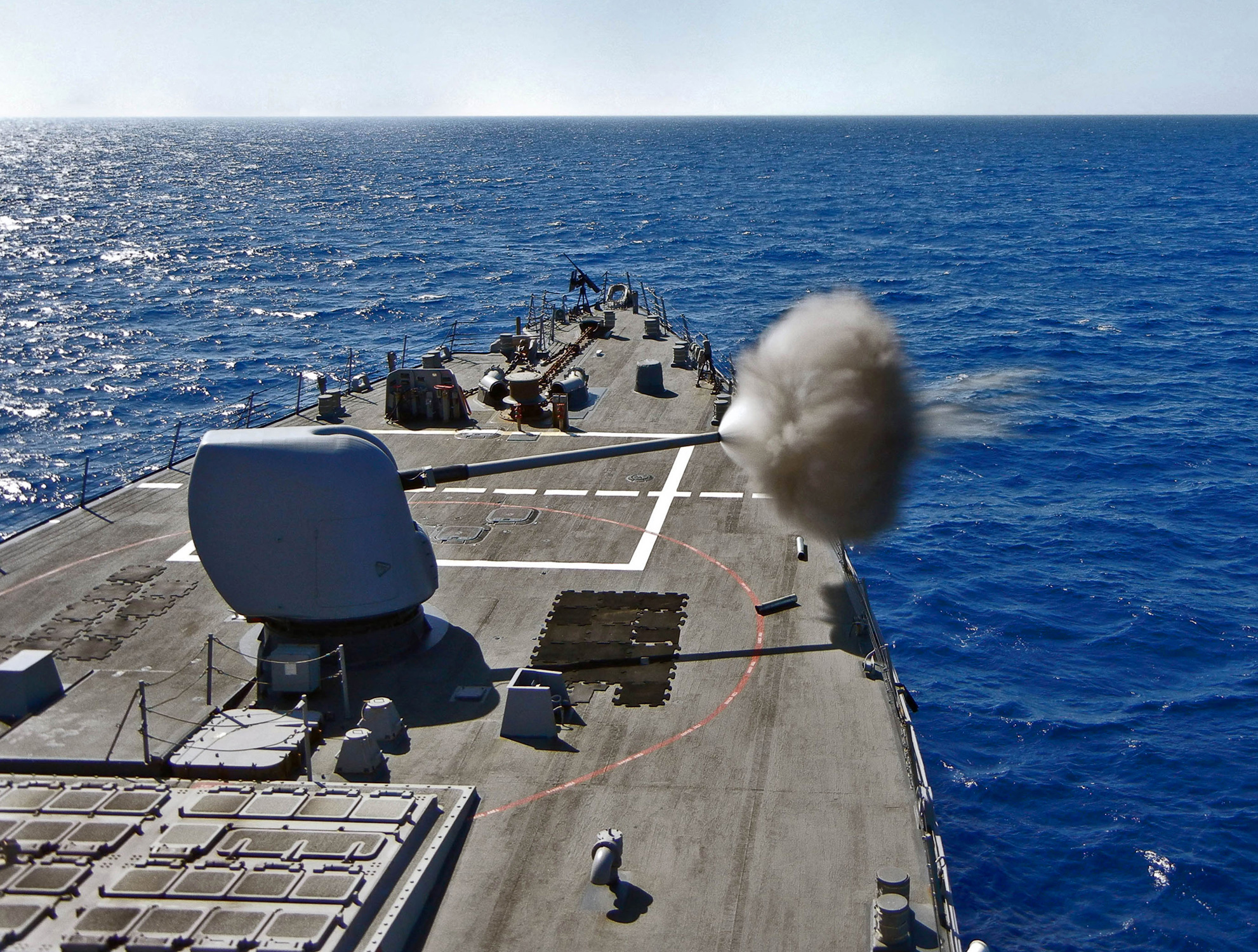 MEDITERRANEAN SEA (April 9, 2011) The Arleigh Burke-class guided-missile destroyer USS Barry (DDG 52) fires its MK-45 5-inch 54 mm cannon during a point accuracy check fire exercise. Barry is on a routine deployment conducting maritime security operations and theater security cooperation missions in the U.S. 6th Fleet area of responsibility. (U.S. Navy photo by Mass Communication Specialist 3rd Class Jonathan Sunderman/Released)